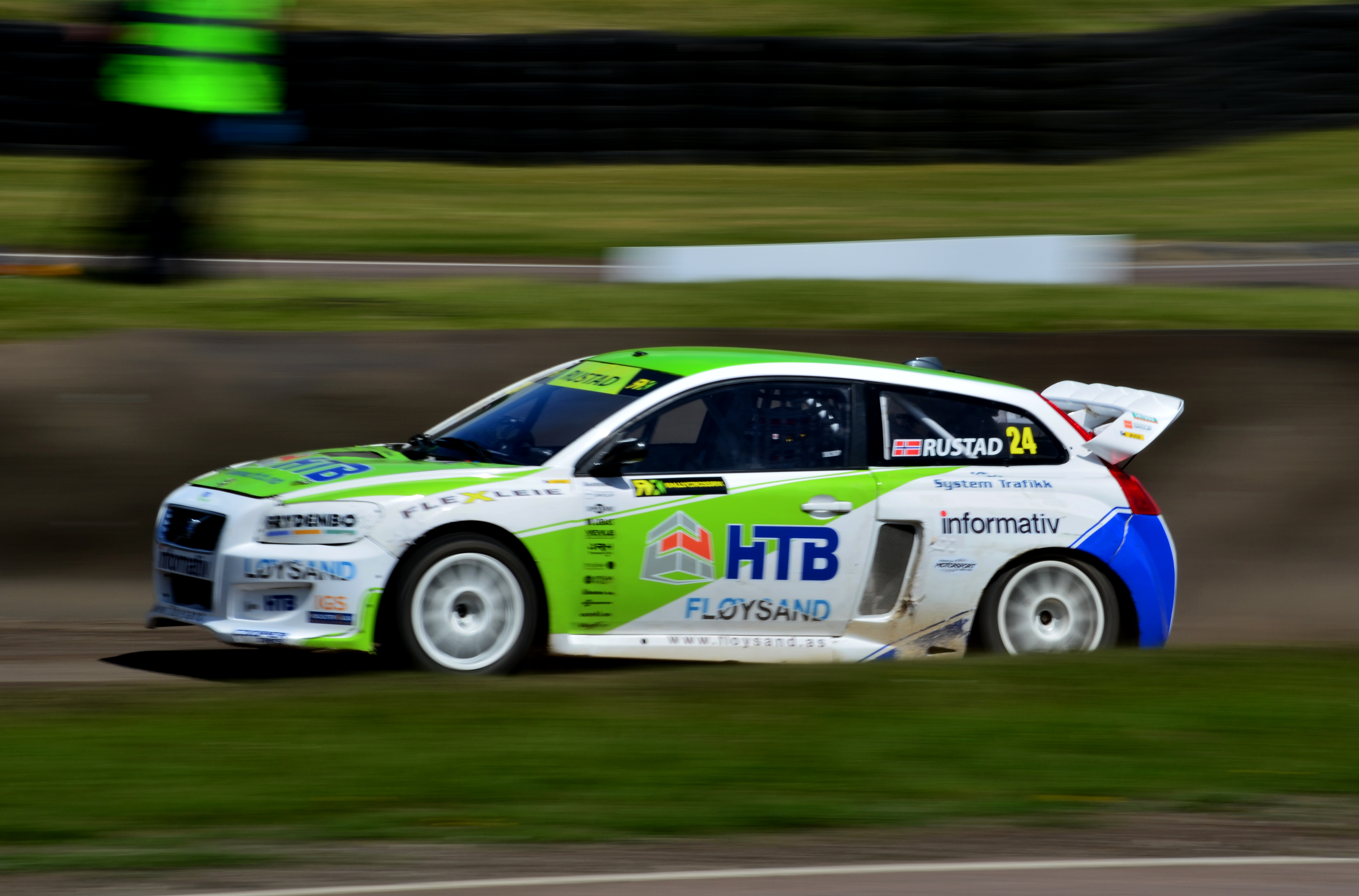 Tommy Rustad racing at Lydden Hill for round 2 of the 2014 FIA World Rallycross Championship.